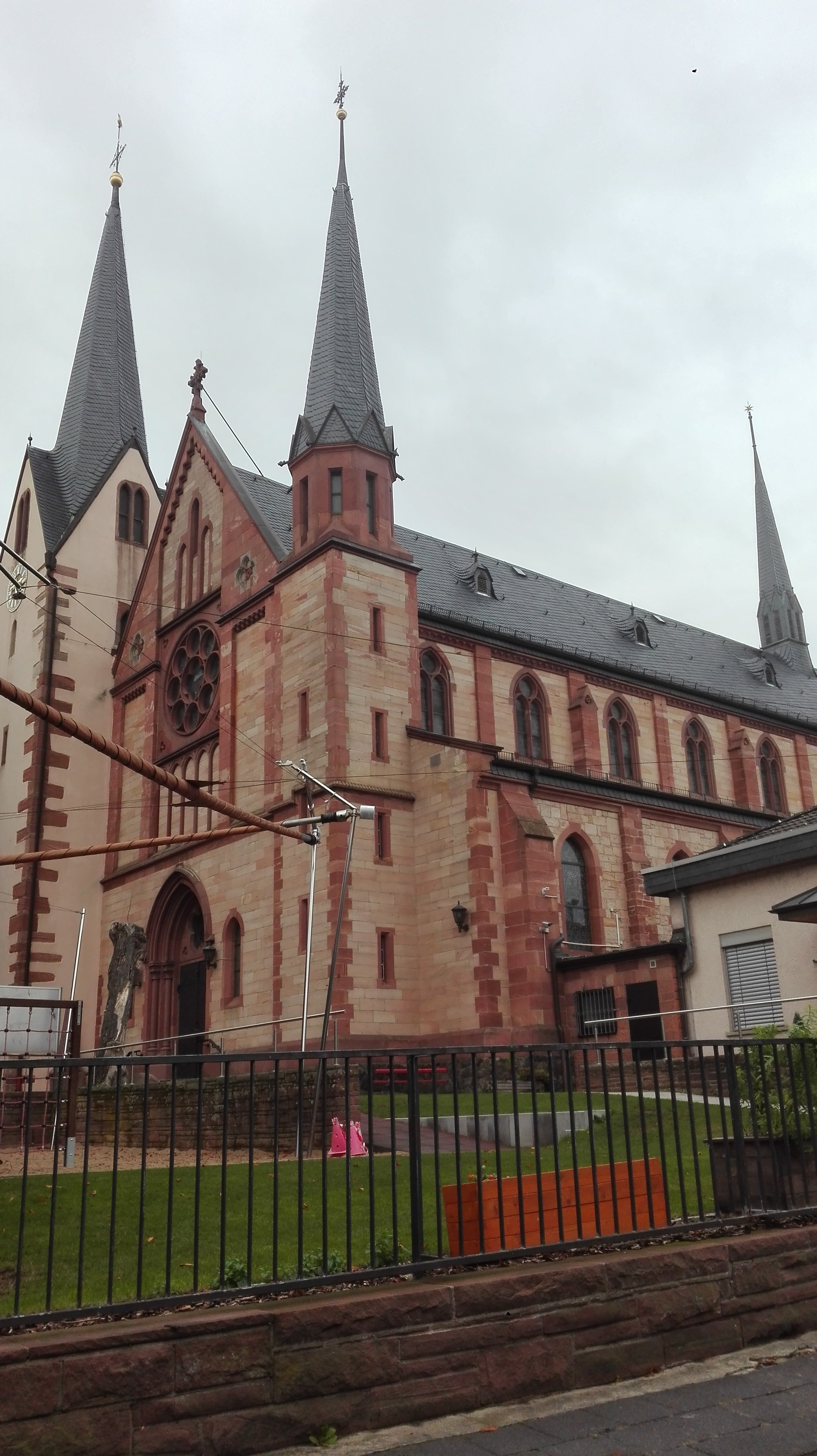 Parish Church St. Pankratius in Offenbach-Bürgel from its westside